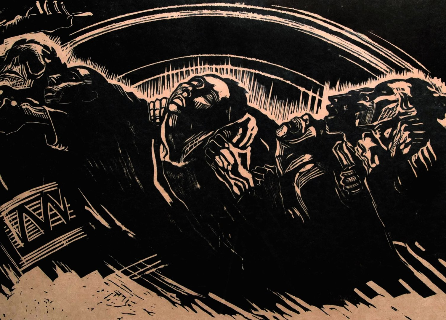 Käthe Kollwitz (1867–1945): The Volunteers (engraved wood), War-Cycle, 1922/23. Notes on a second state proof of Die Freiwilligen indicate that the figure next to death is Peter Kollwitz (1896–1914), alongside his friends Erich Krems (1898–1916), Walter Meier, Julius Hoyer († November 1918), and an unidentified figure which could represent either Richard Noll or Gottfried Laessig. See Alexandra von dem Knesebeck, Käthe Kollwitz: Catalogue Raisonné of Her Prints Bern: Kornfeld, 2002, cat. no. 173, p. 515.